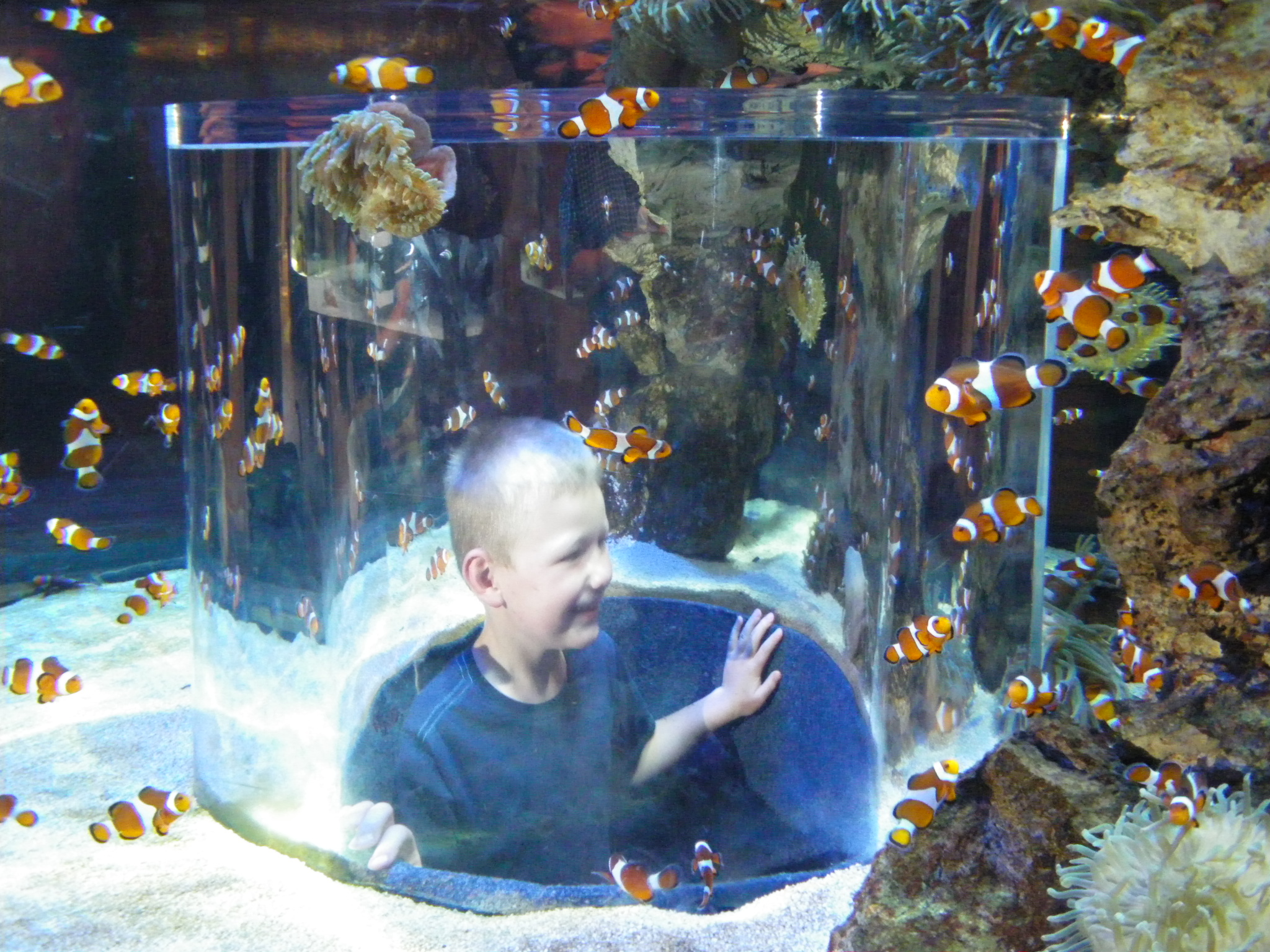 Two Oceans Aquarium, , South Africa.